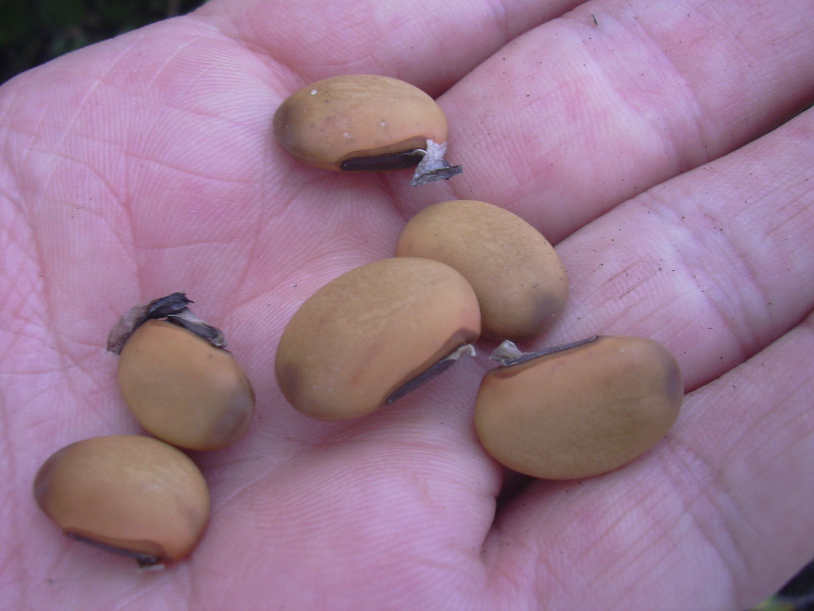 Canavalia pubescens (seeds). Location: Maui, LaPerouse